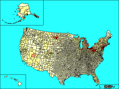 Hungarian in USA